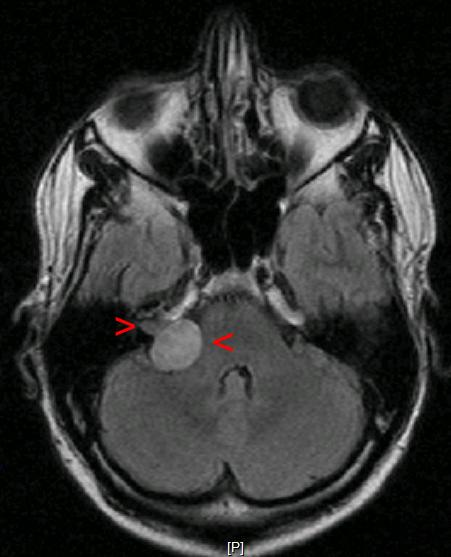 benign tumour: acoustic neuroma (also known as schwannoma or neurinoma)right (left image side) size:20x22x25mm